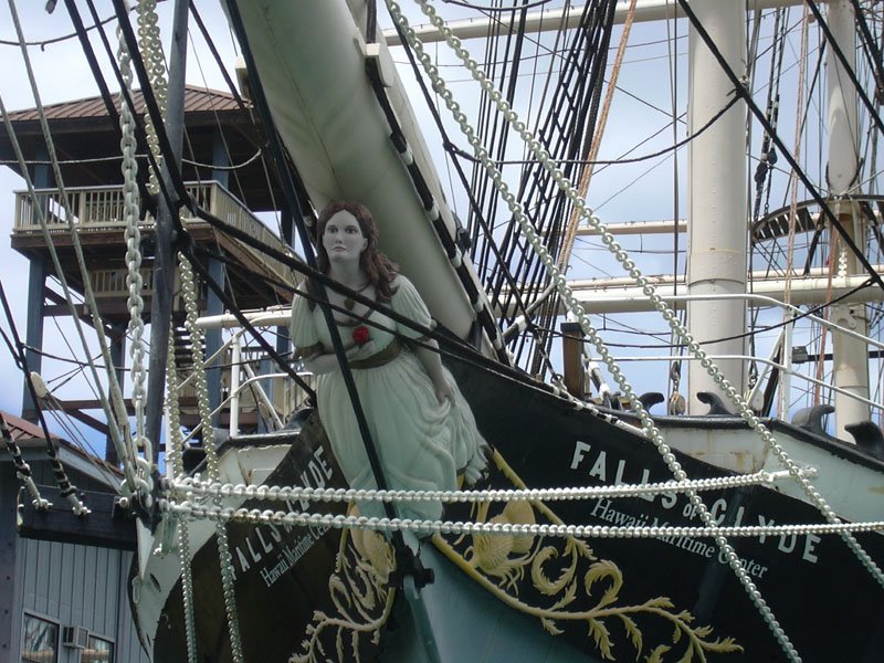 The Falls of Clyde (detail of the prow featuring the female figurehead beneath the bowsprit.) The Falls of Clyde, Honolulu, Hawaii (detail of the prow). I am the author of this picture. Copyright is released to Wikipedia. --Alexandre 08:05, 16 Aug 2004 (UTC) Captioned As {}